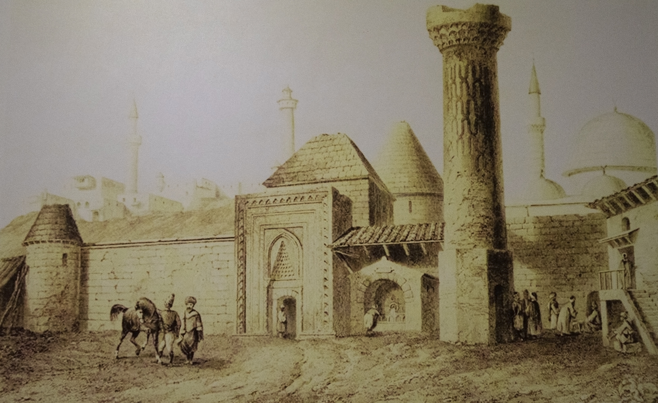 Yakutiye Madrasah in 1840 by Félix Marie Charles Texier.